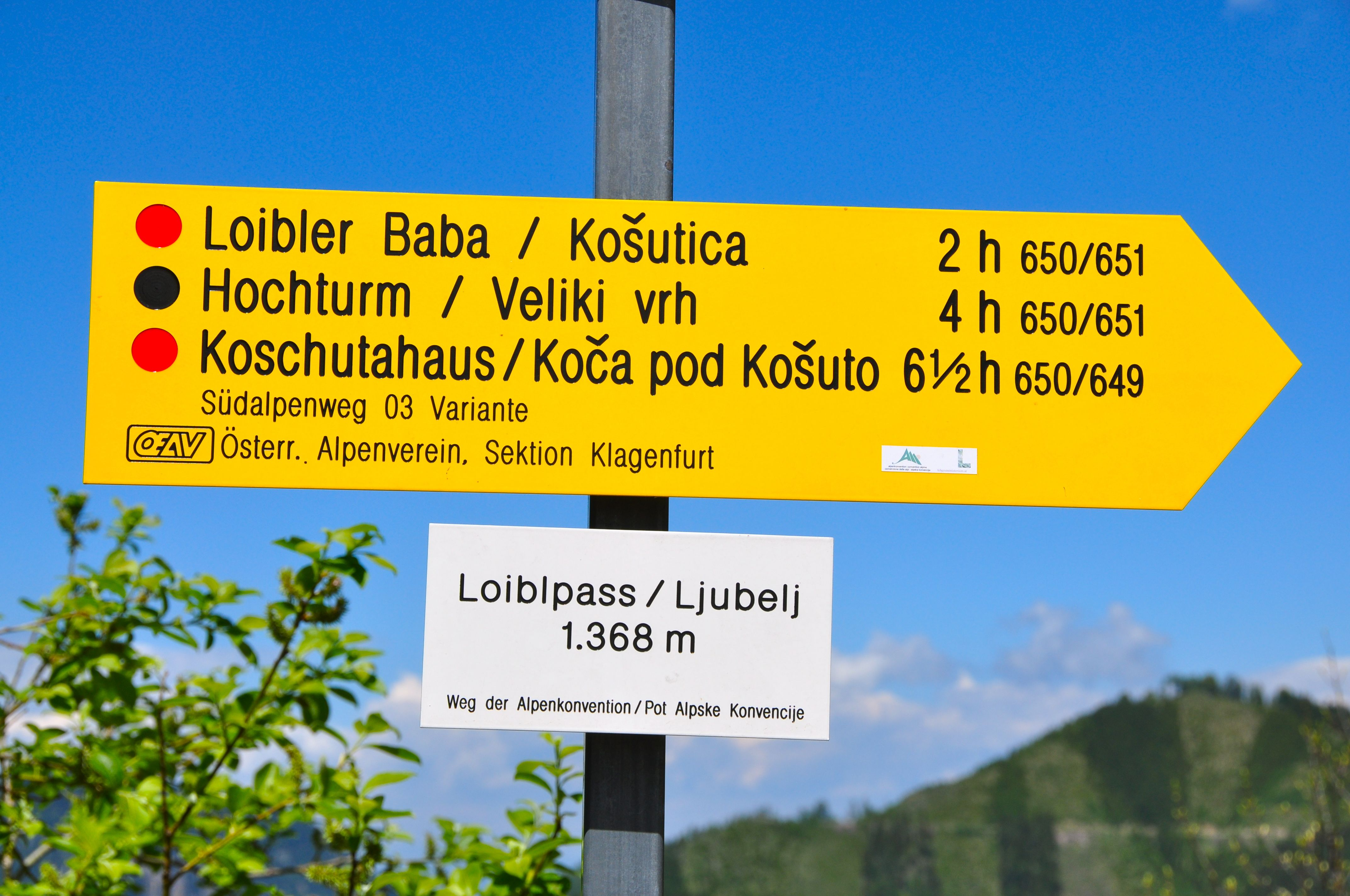 Marker on the mountain pass "Old Loibl", Loibltal, municipality Ferlach, district Klagenfurt Land, Carinthia, Austria